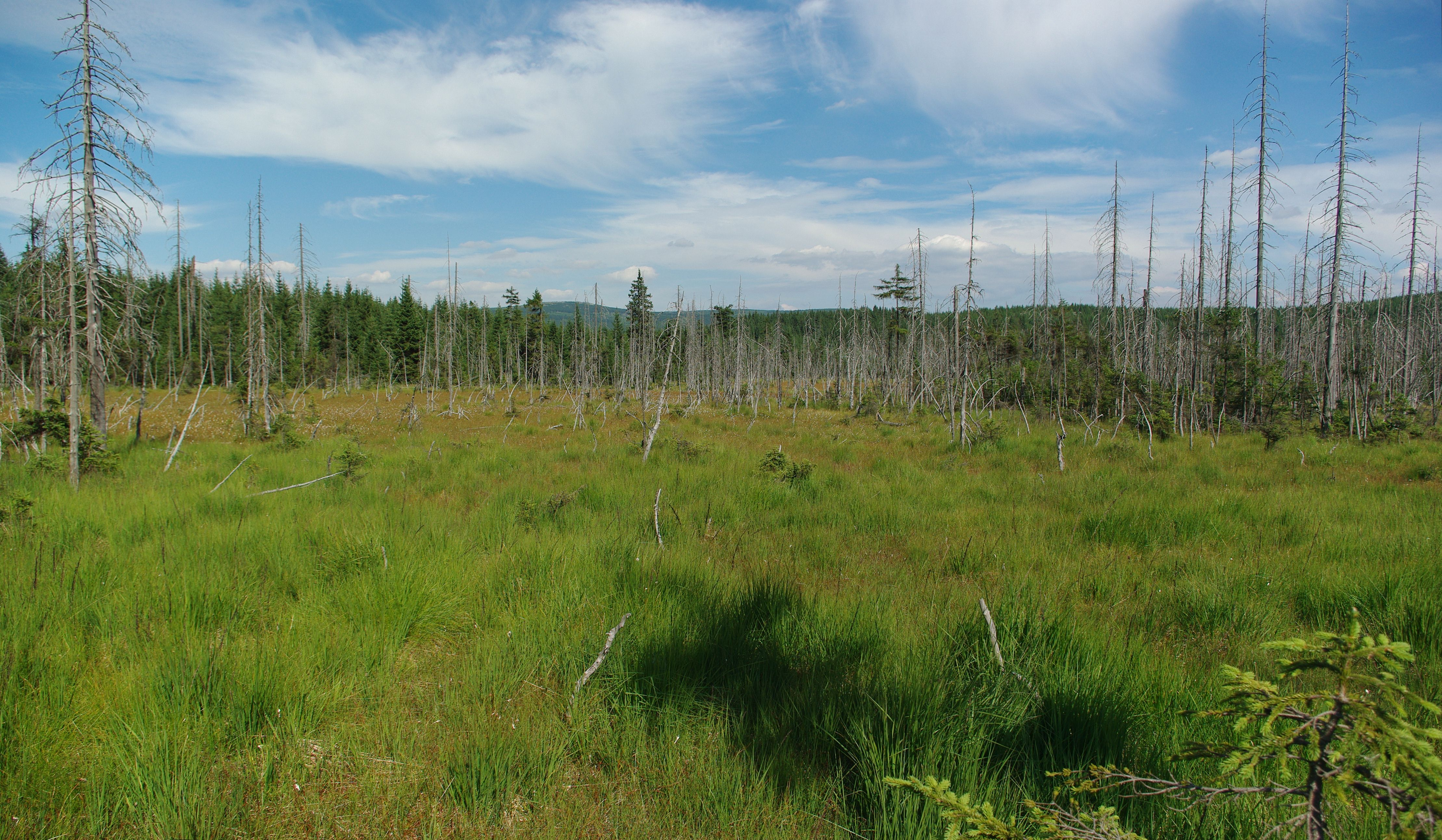 Nature reserve Rybí loučky in Jablonec nad Nisou District, Czech Republic